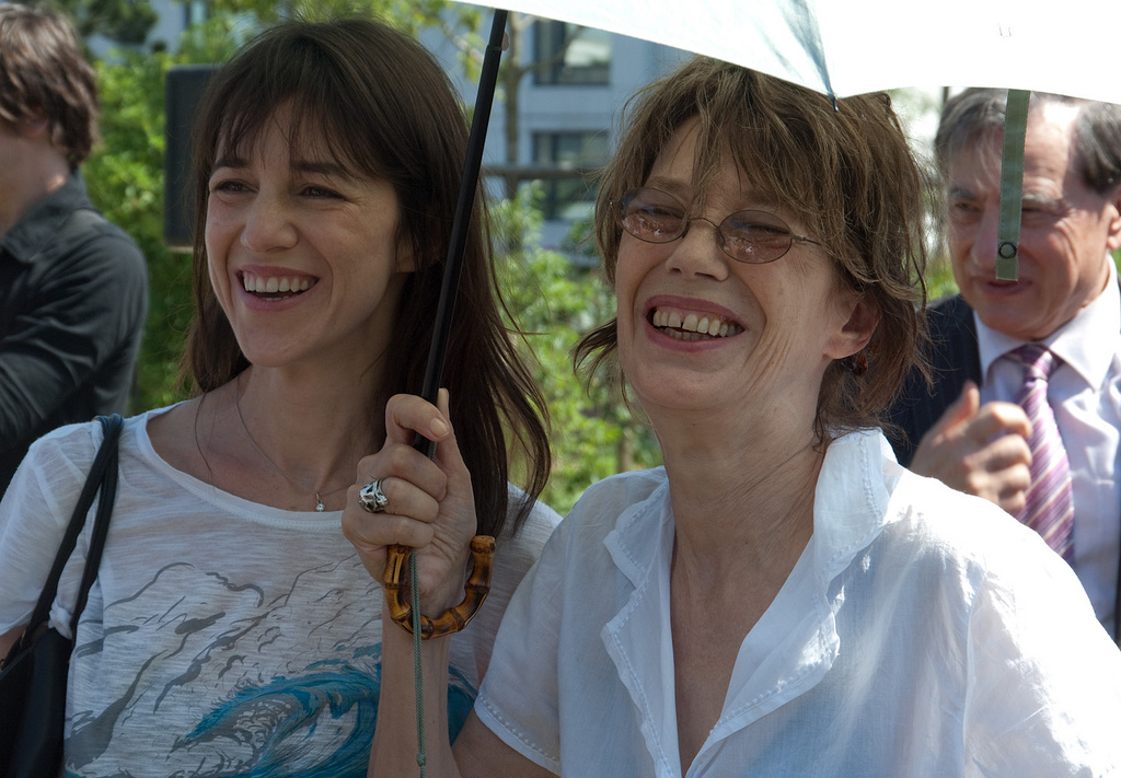 Jane Birkin and Charlotte Gainsbourg at the inauguration of the Jardin Serge Gainsbourg in Paris